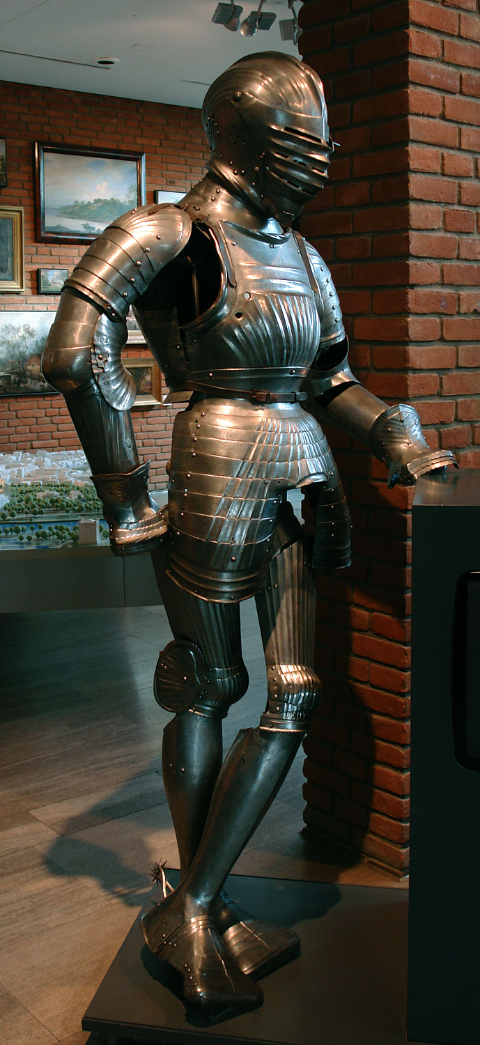 16th century Maximilian armour now exhibited in the Focke-Museum, the museum for art and cultural history of the state of Bremen. The armour belonged to the Complimentarius, a mechanical greeting-automaton that was installed from the early 17th to the early 19th century in the Schütting (the merchant guild headquarters) in Bremen.